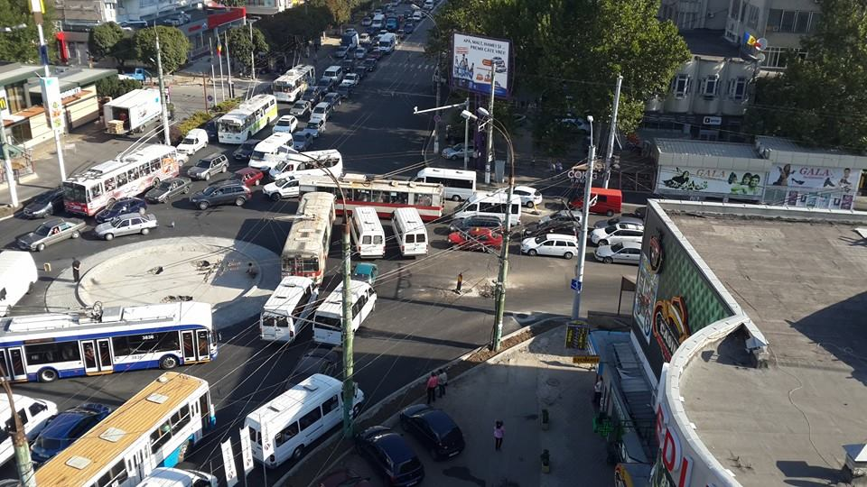 Chisinau Traffic Jam